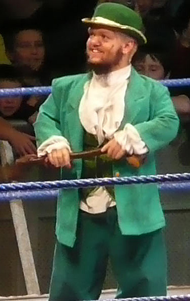 Hornswoggle at a WWE Live event in Belfast, Northern Ireland.